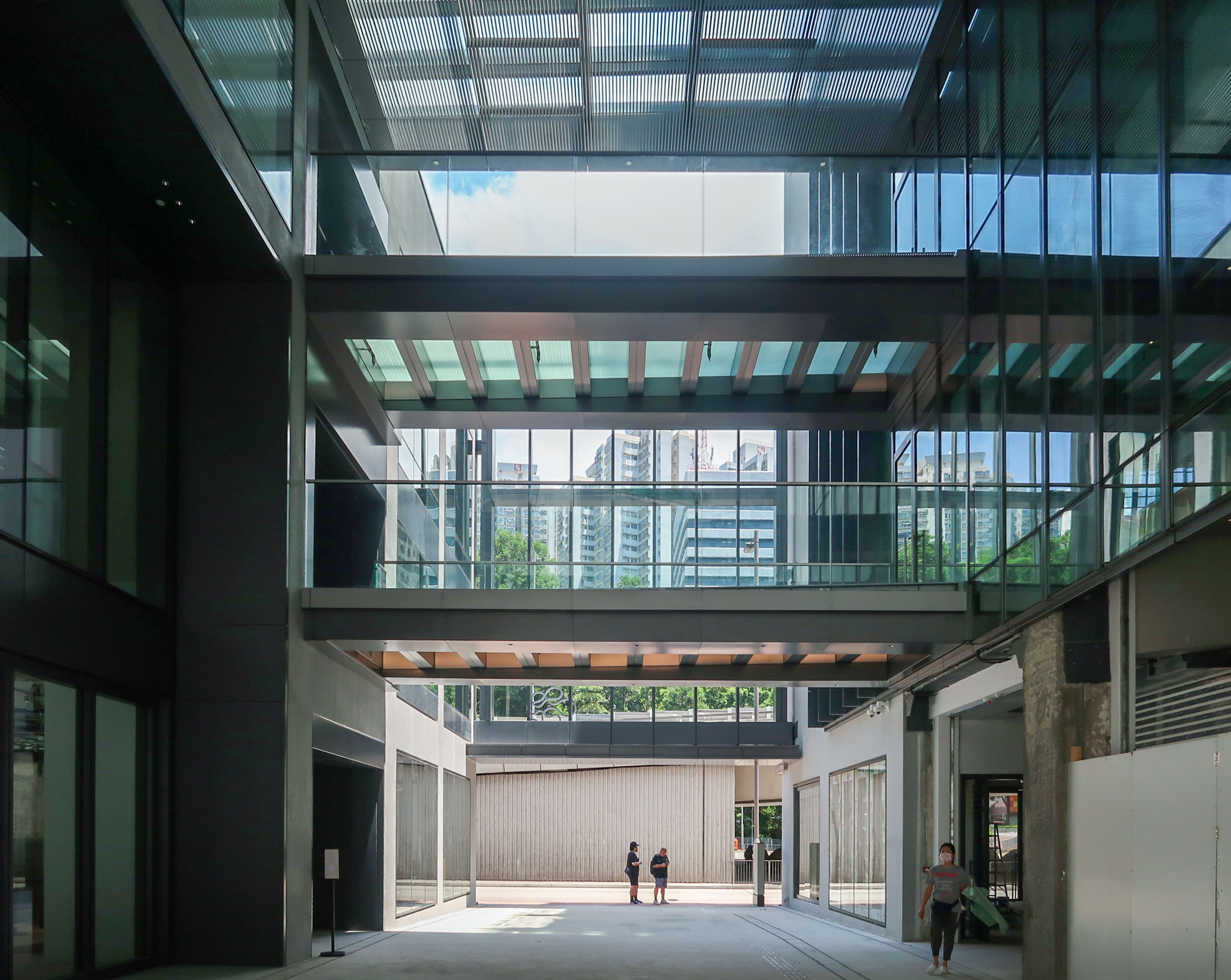 The Mills bridge linkage